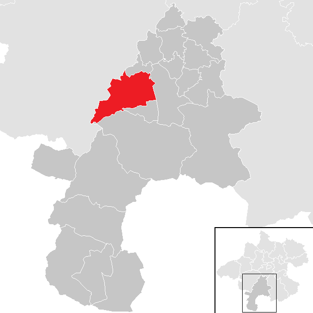 district Gmunden